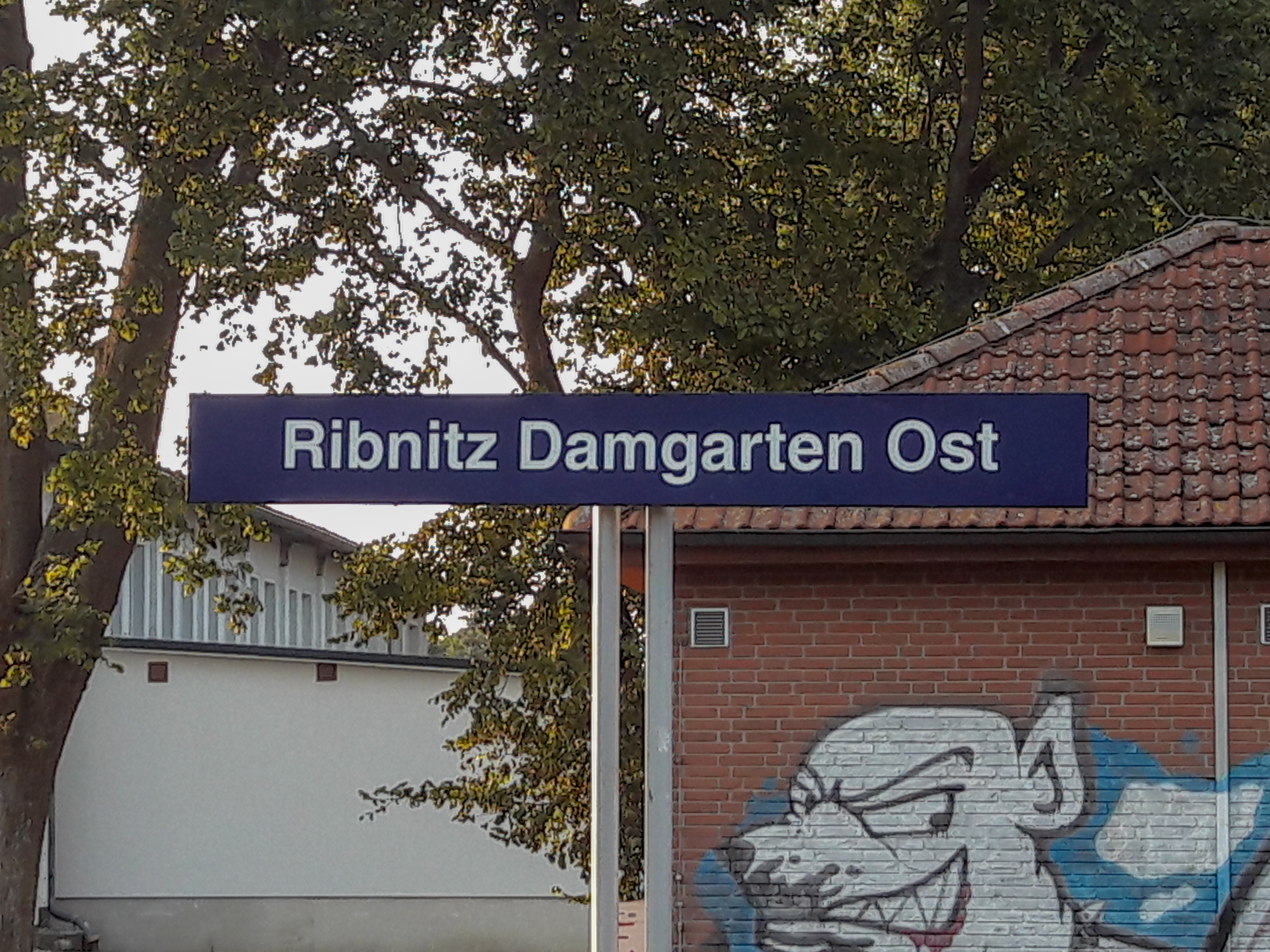 Station sign in Ribnitz-Damgarten Ost with Neue Helvetica font instead of the usual DB WLS font